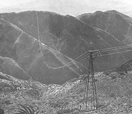 The Massawa-Asmara Tramway - crossing valley